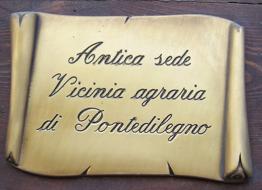 Old place of the Vicinia agraria. Ponte di Legno, Val Camonica